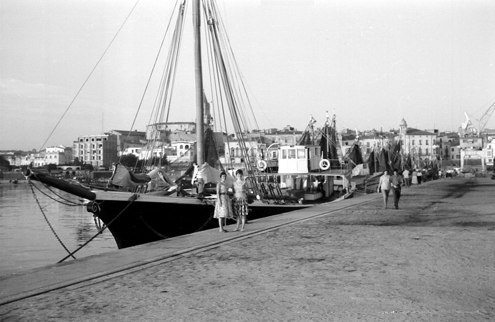 Sailboat, Palamós harbour in the 1950s